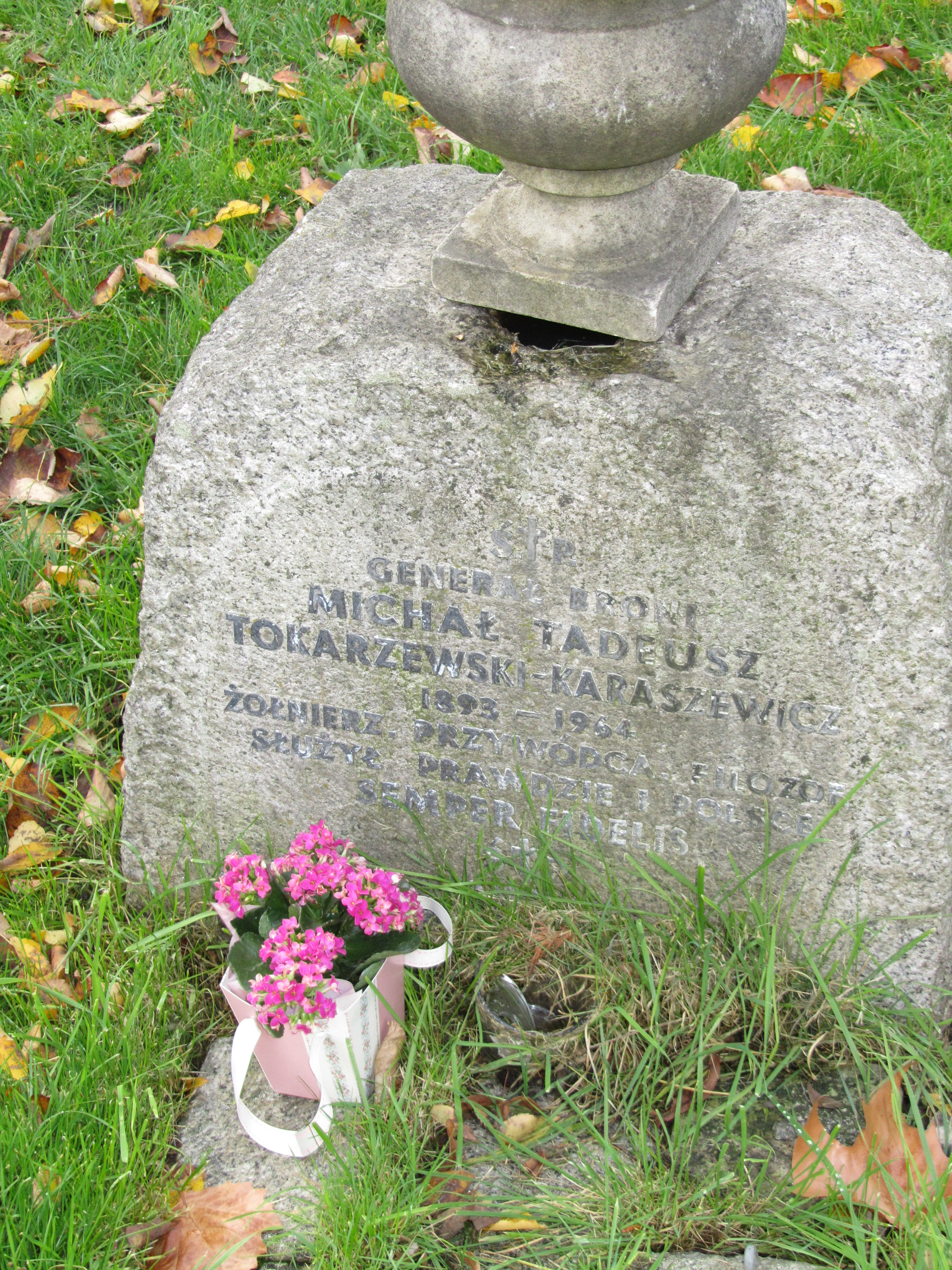 Gravestone of Polish war hero Michał Karaszewicz-Tokarzewski who's ashes were later reburied in Powązki Cemetery in Warsaw. Inscription is in Polish but apparently reads in English as: In memory of Michal Tokarzewski-Karaszewicz: Lieutenant, General, theosophist, freemason, a priest of the Liberal Catholic Church. Soldier, Leader, Philosopher [obscured] He served the real Poland Semper Fidelis [Semper Fidelis is Latin for "Always Faithful" or "Always Loyal".]